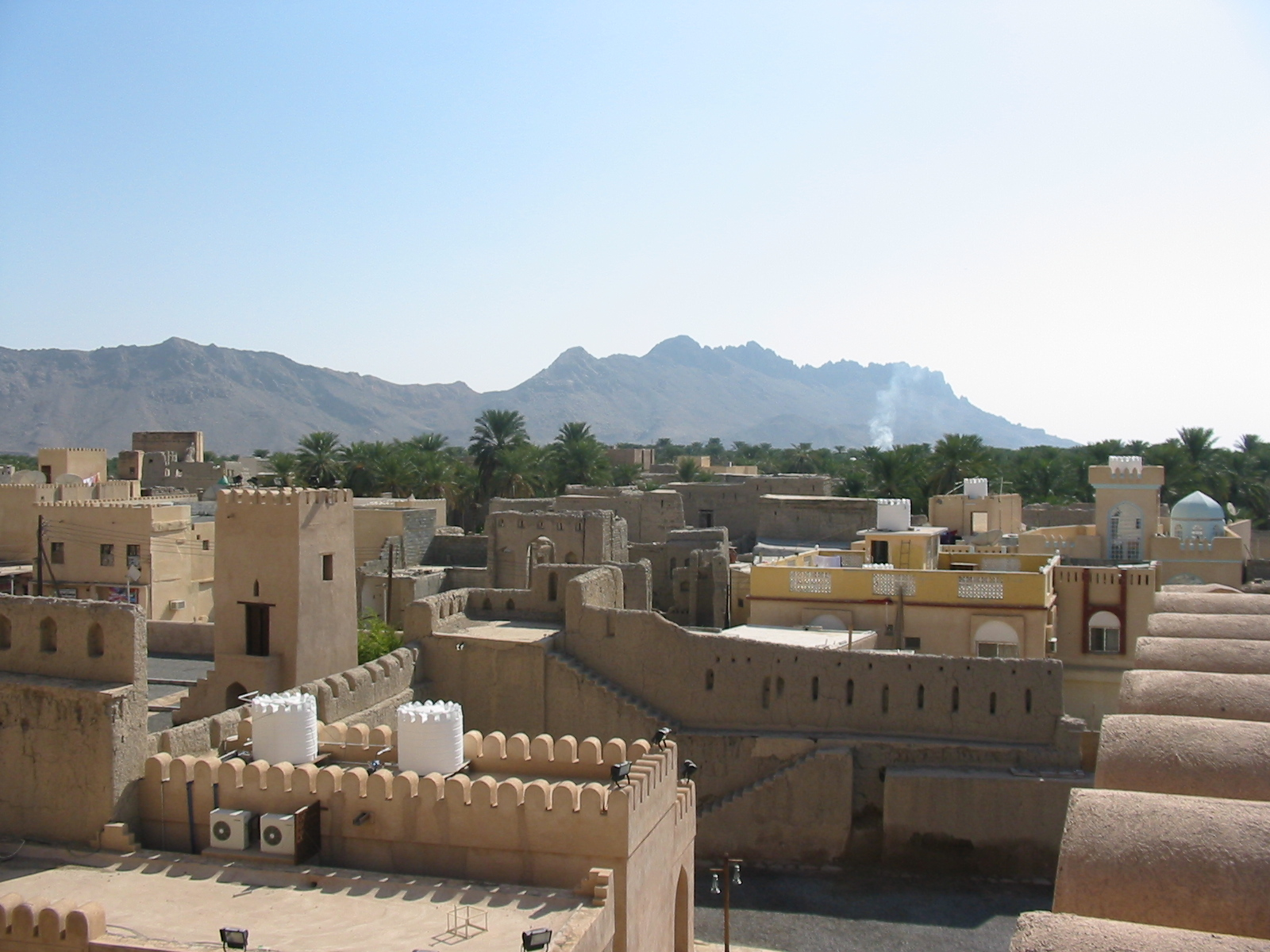 Nizwaview of old city from Nizwa Fort